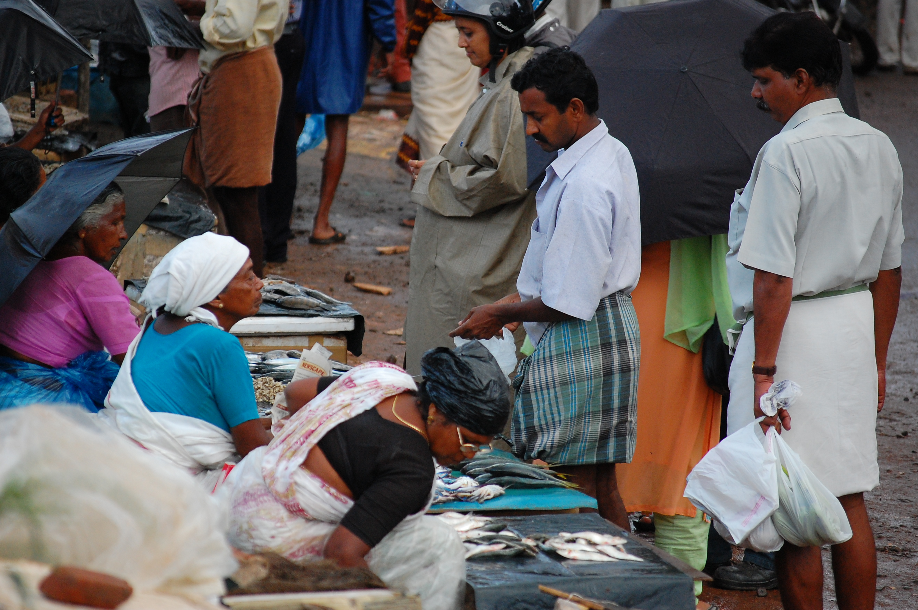 Evening fish market at Vypin